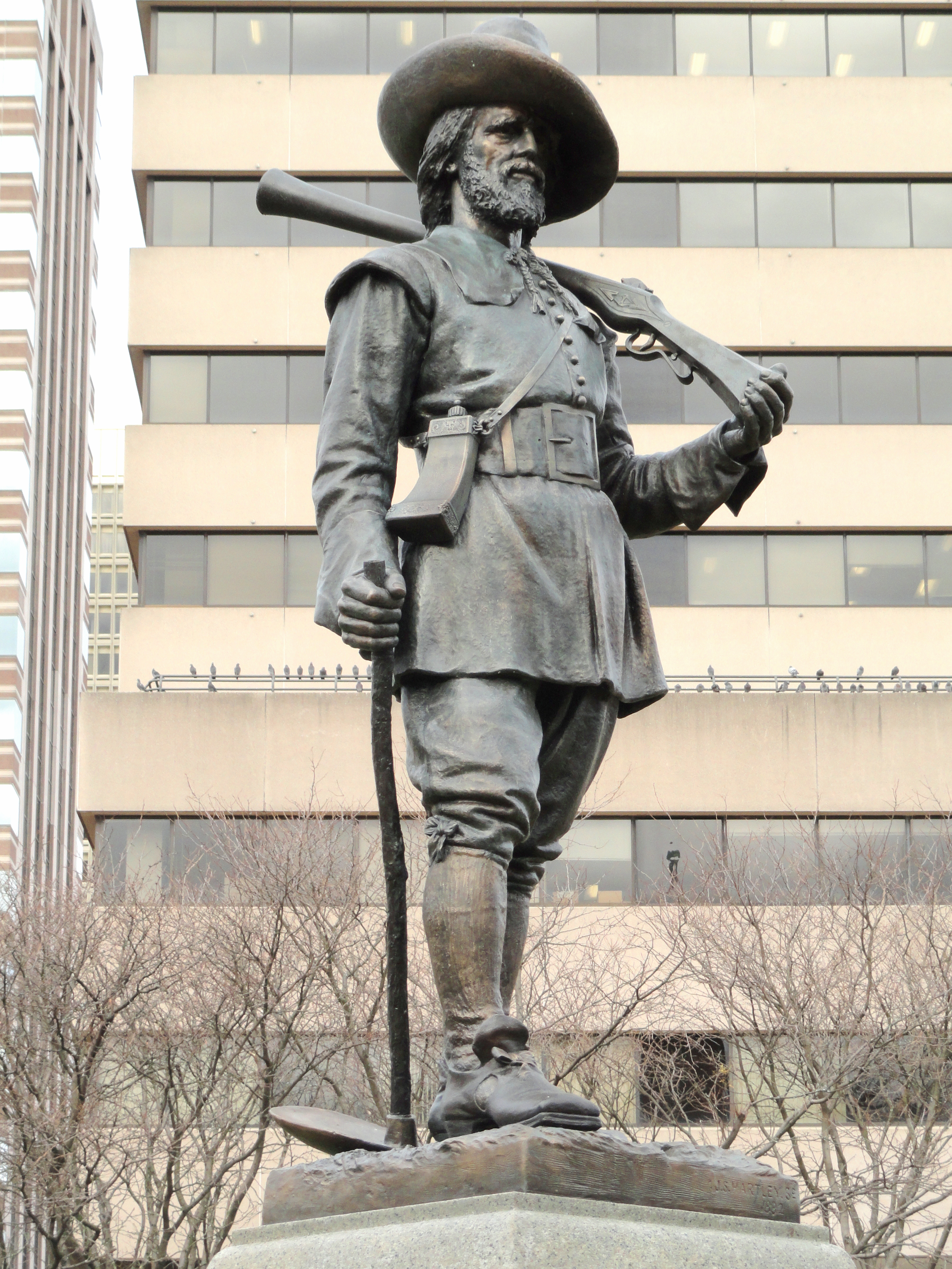 Memorial statue to Miles Morgan by Jonathan Scott Hartley (1845–1912), located in Springfield, Massachusetts, USA. This sculpture is in the public domain because the artist died more than 70 years ago.